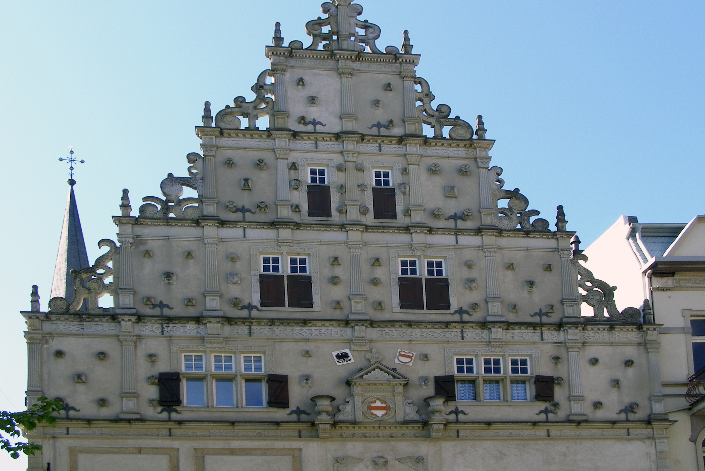 Gable of the old "Neustaedter" city hall in town of Herford, District of Herford, North Rhine-Westphalia, Germany.